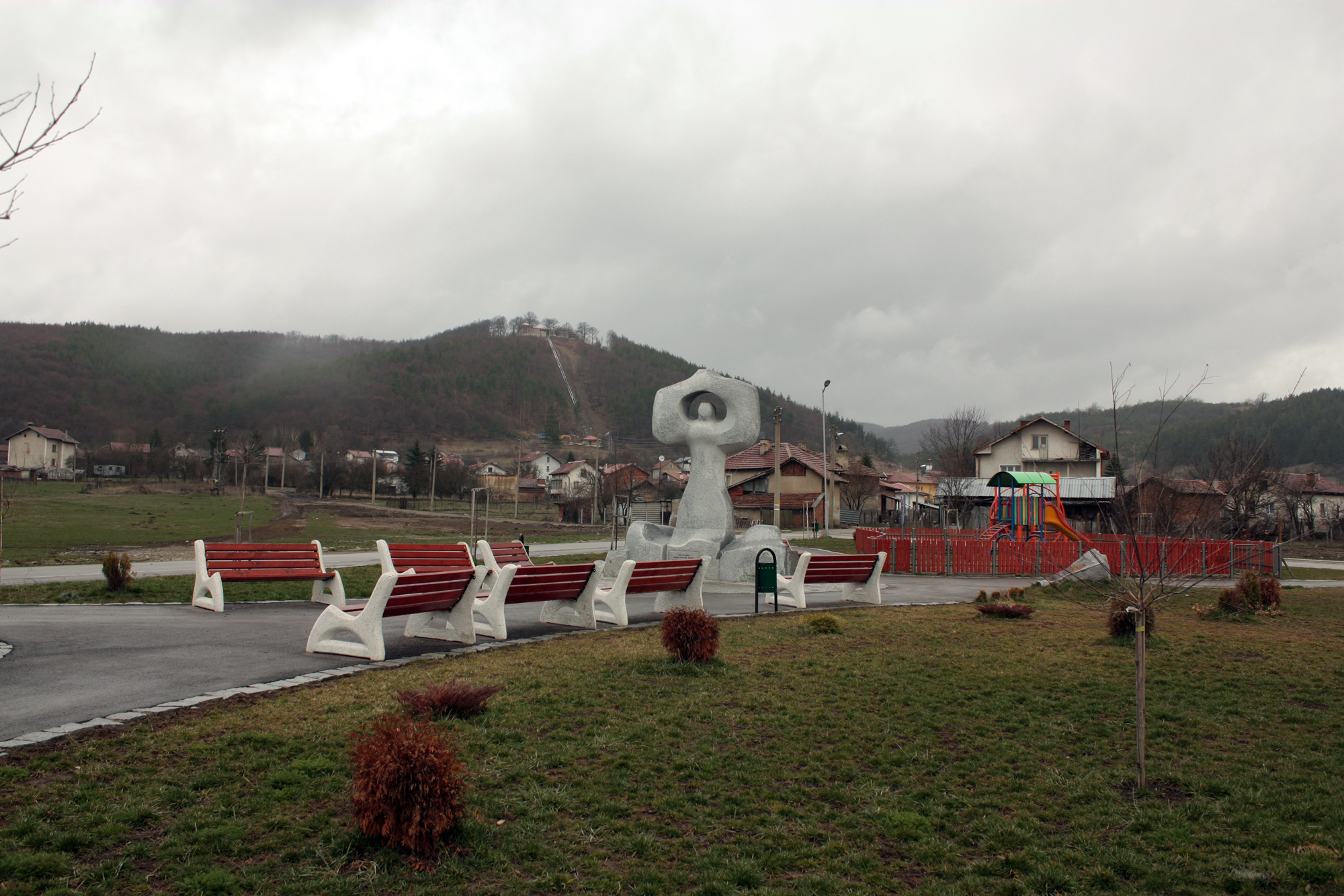 Outskirts of Belchin, Bulgaria